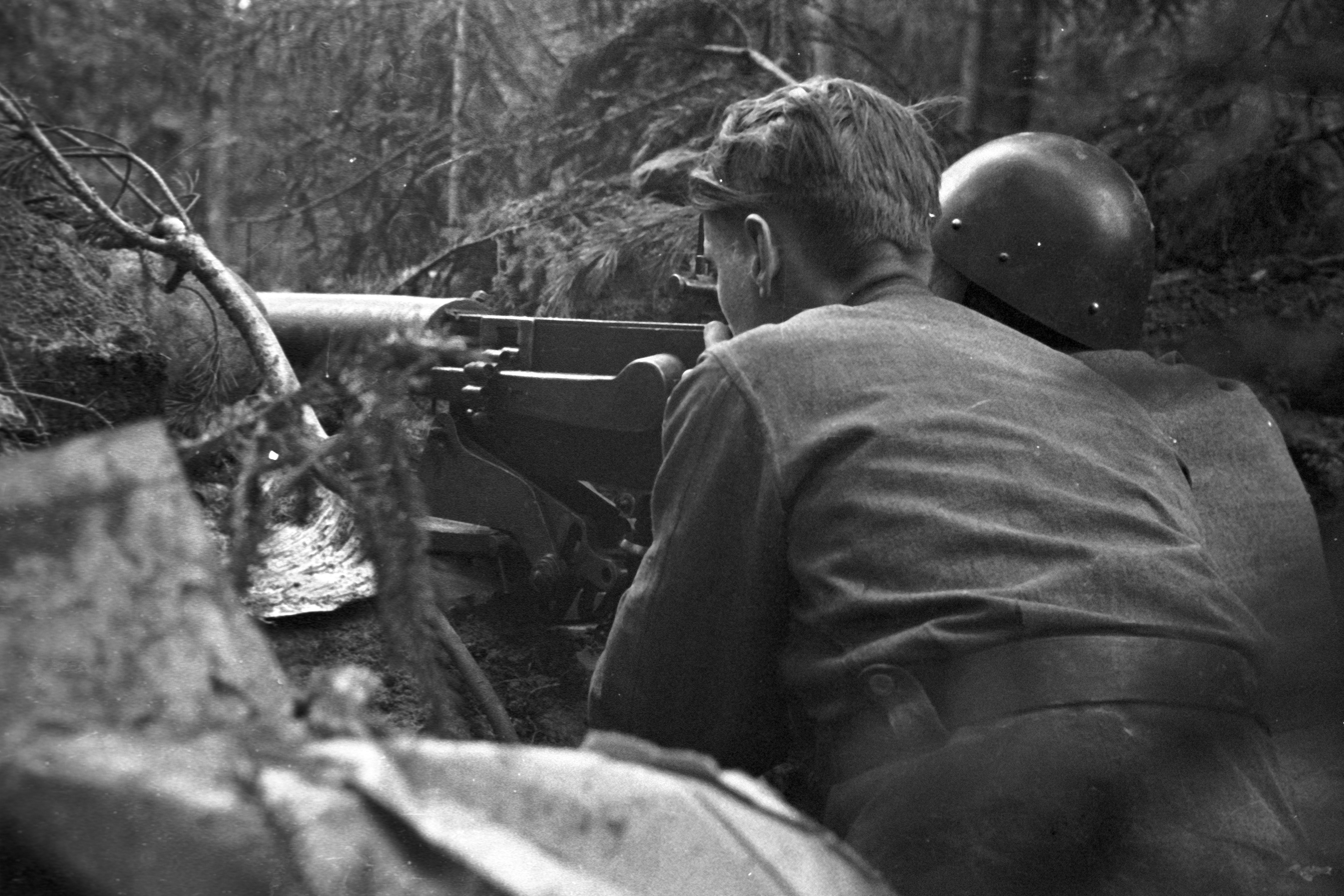 Finnish soldier with Machine-gun work out in frontline Äyräpää-Vuosalmi.